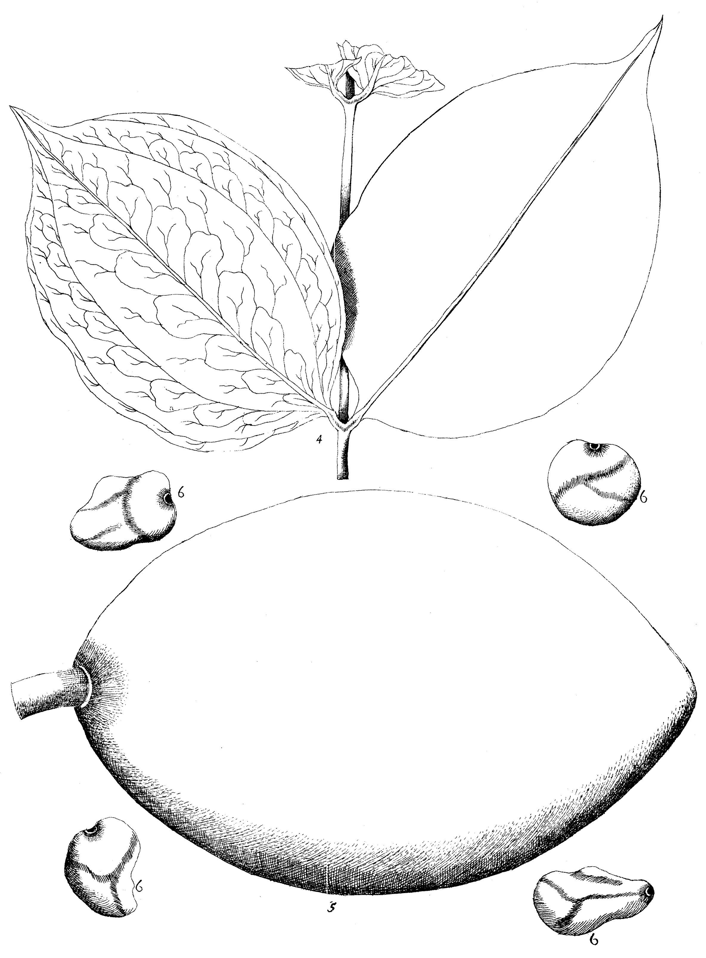 Strychnos ignatii